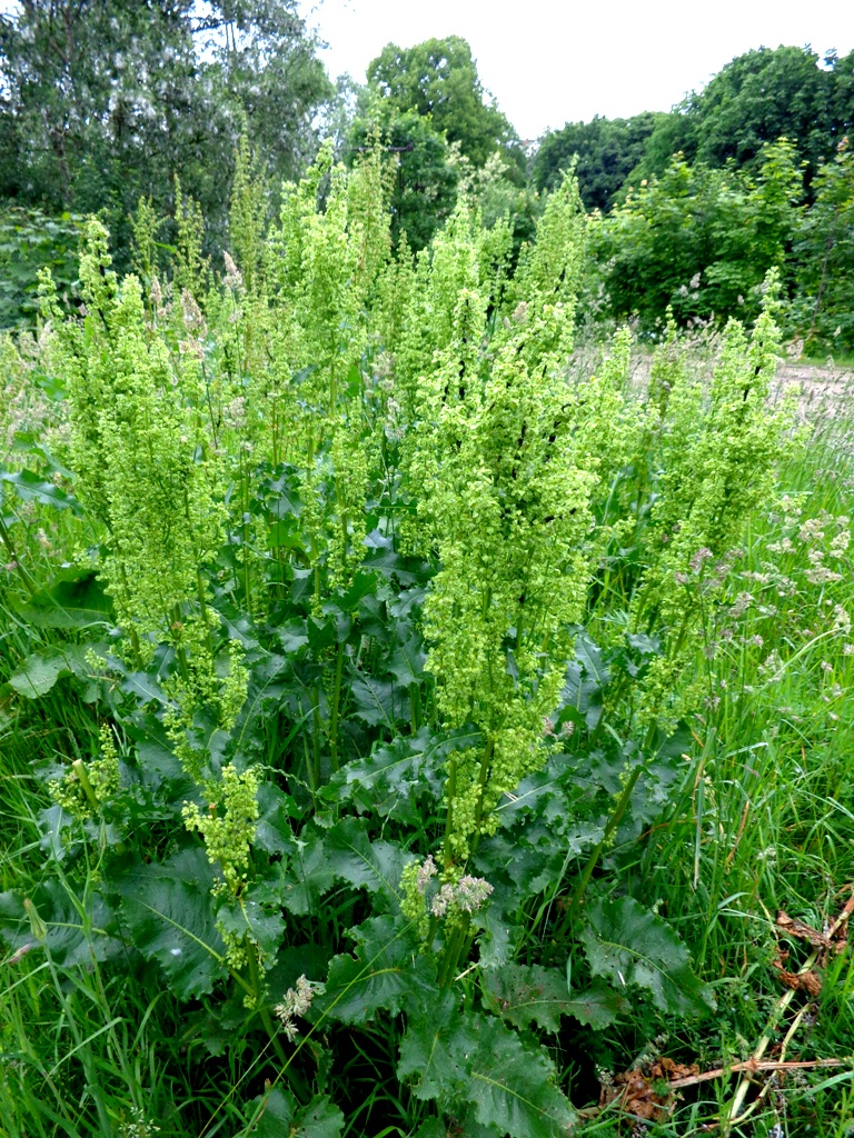 Rumex confertus. Found in Rīga, Latvia